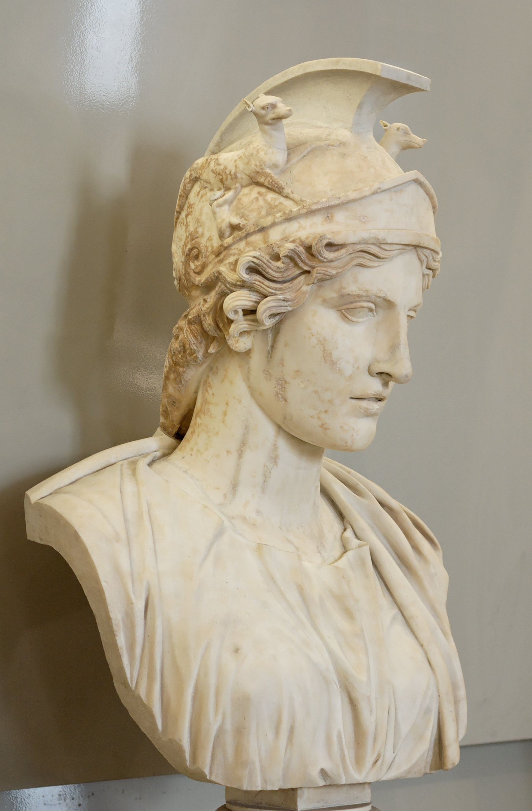 Personnification of the city of Rome, from Italy.